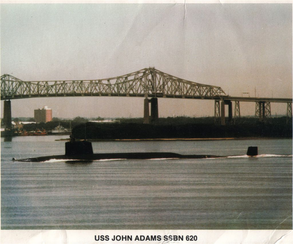 United States Navy fleet ballistic missile submarine off Portsmouth Naval Shipyard at Kittery, Maine